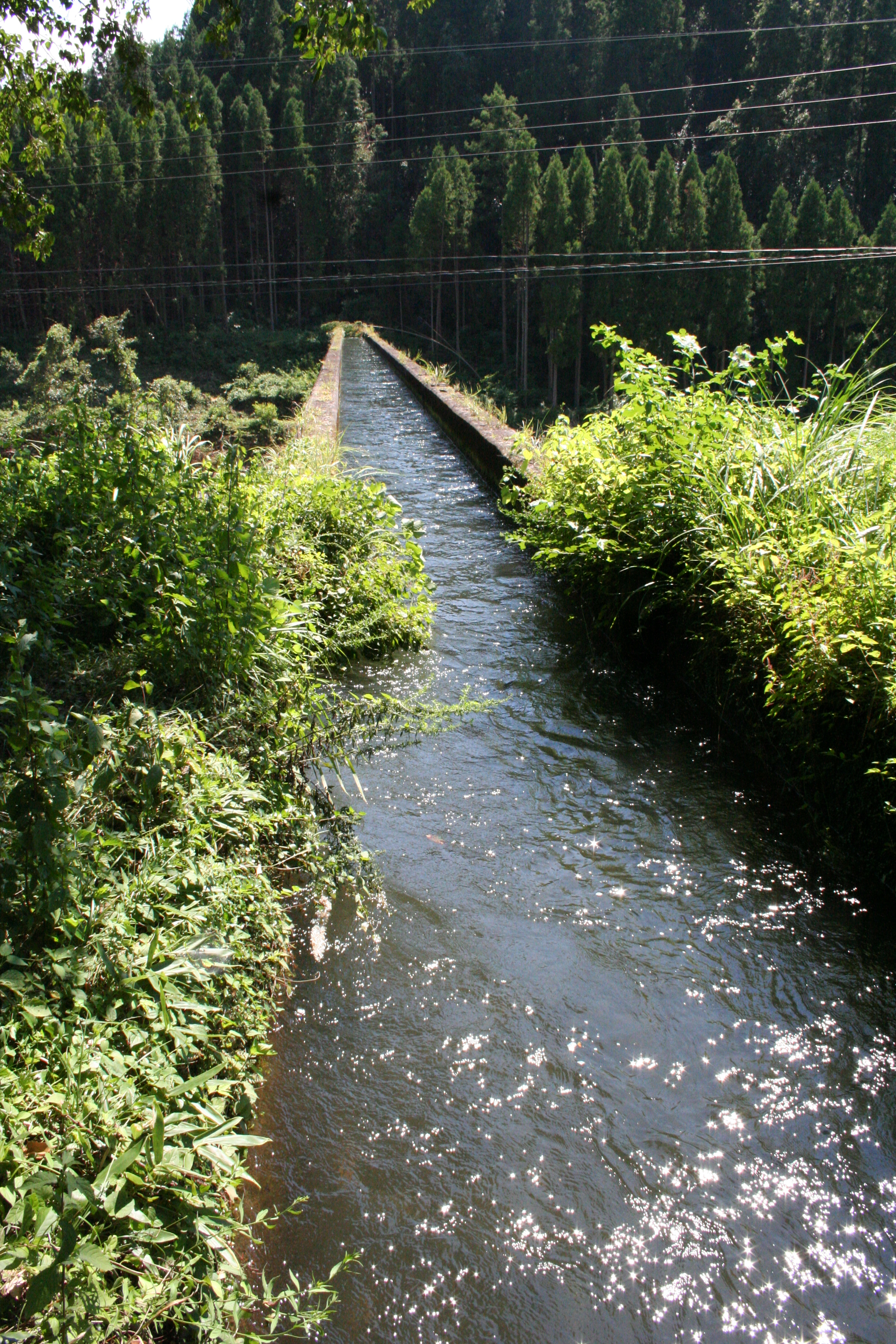 Description:Meisei Flume Aqueduct stone arch bridge(1919). Takeda-city, Oita.Prefecture, Japapn. 明正井路一号幹線一号橋(大分県竹田市大字門田) Source: self-made Date=2007/08/17 Photographer: Tsutsui Mizuki